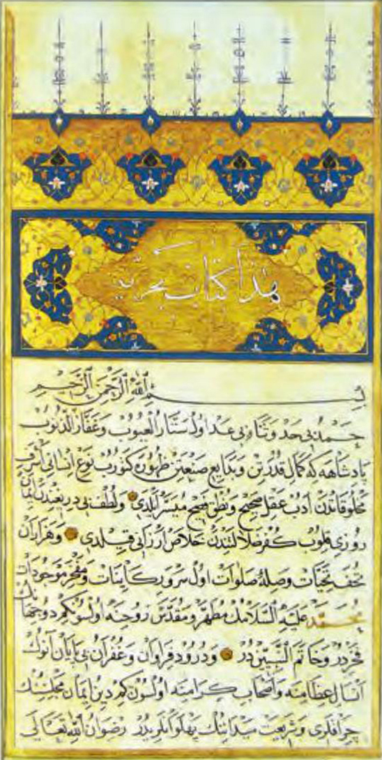 Pîrî Reis's original manuscript at Kitâb-ı Bahriye.